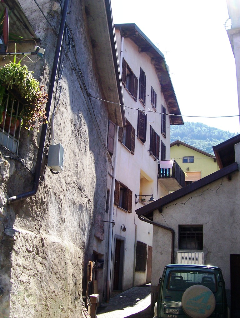 Pescarzo, Breno, Val Camonica